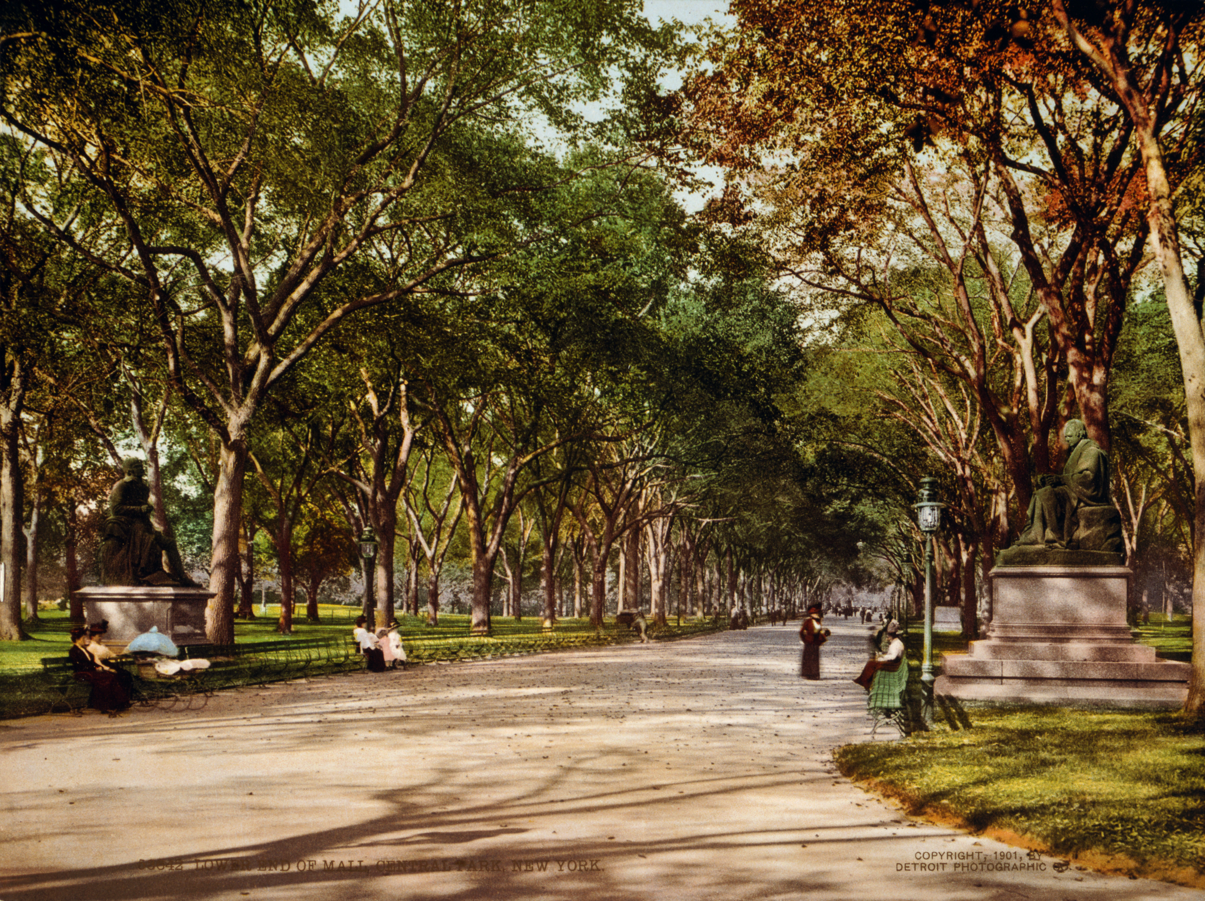 53642. Lower end of mall, Central Park, New York. Photochrom print by the Detroit Photographic Co., copyrighted 1901. From the Photochrom Prints Collection at the Library of Congress More photochroms from New York & the United States | More photochrom prints [PD] This picture is in the public domain